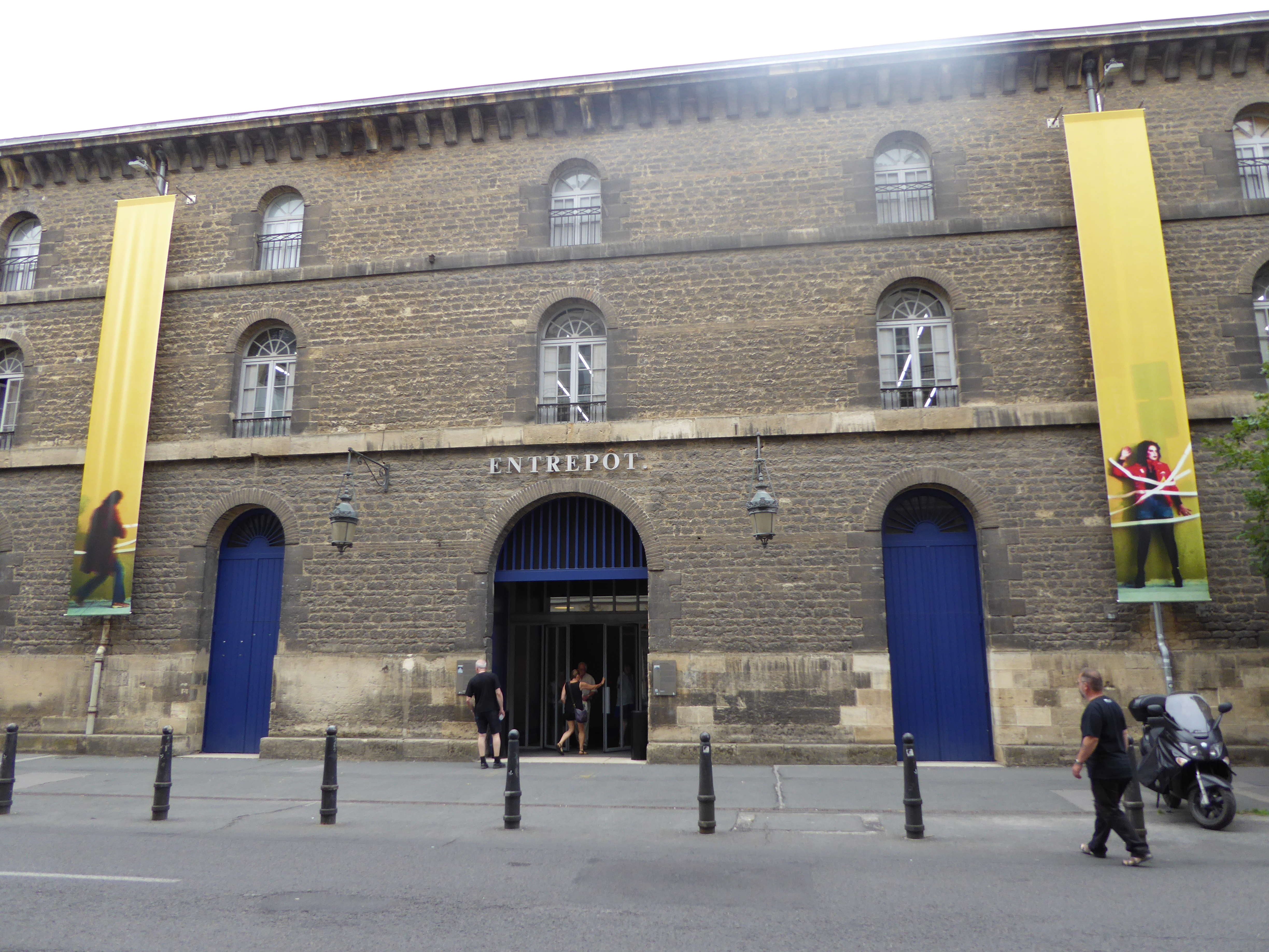 CAPC - Musée d'art contemporain de Bordeaux, Entrepôt Lainé, Rue Ferrère, Bordeaux, July 2014